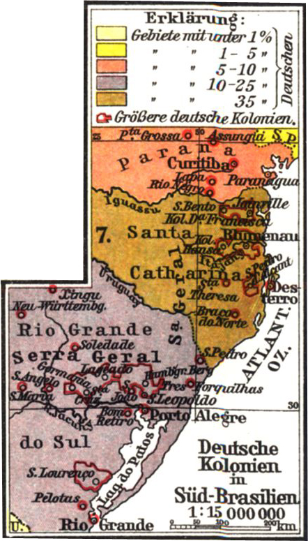 German colonies in South of Brazil